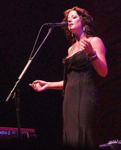 Sarah McLachlan Afterglow Tour Photo taken May 17 2005 by Terence Gui John Labatt Centre (London, Ontario)